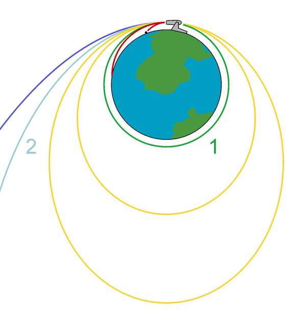 Schematic figure of sub-orbital (red), orbital (green), elliptic (yellow) and escape trajectories, pertaining to different launching velocities.